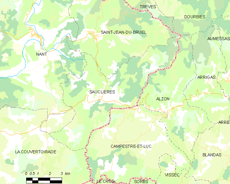 Map commune FR insee code 12260.png - Sauclières